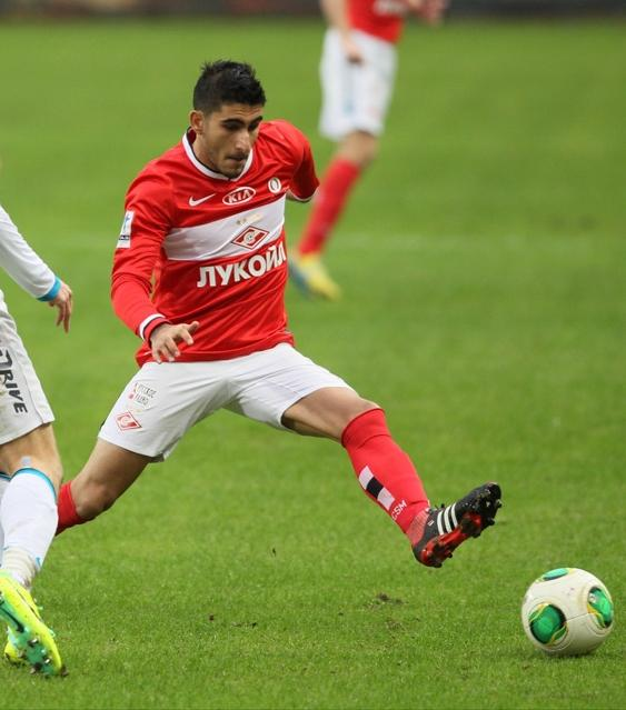 Aras Özbiliz with FC Spartak Moscow in 2013.